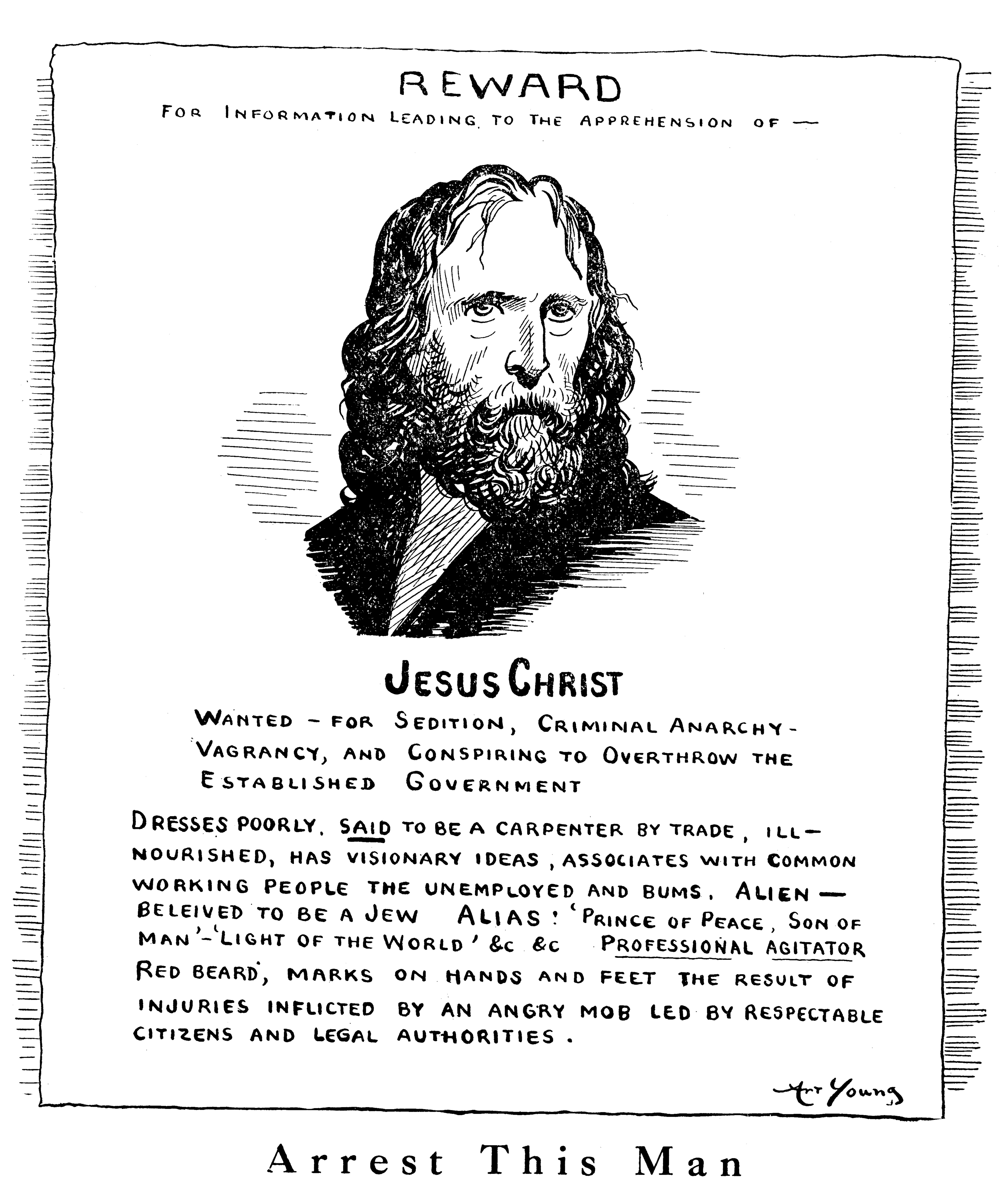 "Arrest This Man," by Art Young.Reward. For information leading to the apprehension of —. Jesus Christ. Wanted - for sedition, criminal anarchy - vagrancy, and conspiring to overthrow the established government. Dressed poorly, said to be a carpenter by trade, ill-nourished, has visionary idea, associates with common working people the unemployed and bums. Alien - beleived to be a jew. Alias : 'Prince of peace', 'Son of man - Light of the world', &c &c. Professional agitator read beard, marks on hands and feet the result of injuries inflicted by an angry mob led by respectable citizens and legal authorities.